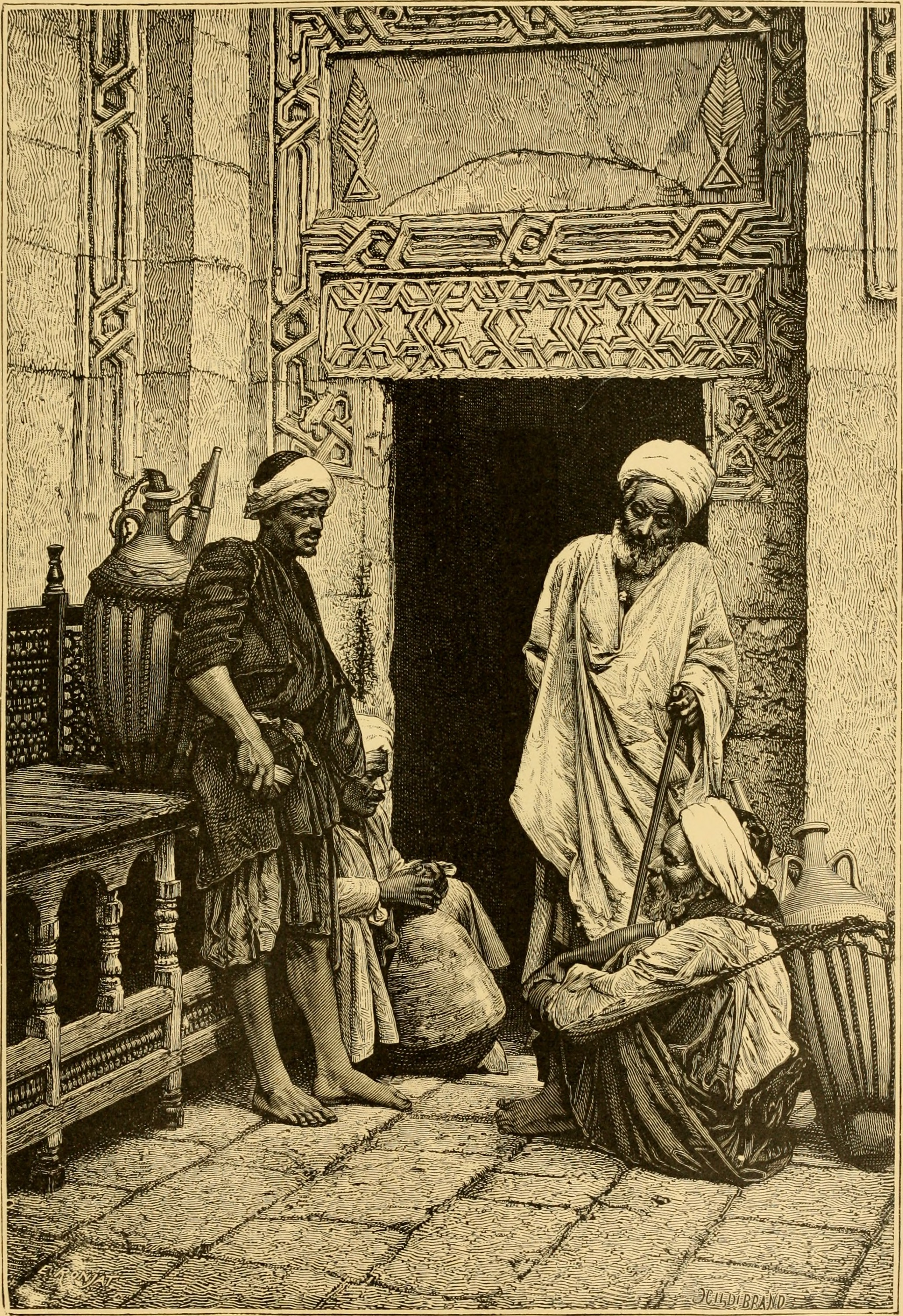 Title: The earth and its inhabitants .. Year: 1886 (1880s) Authors: Reclus, Elisée, 1830-1905; Ravenstein, Ernest George, 1834-1913; Keane, A. H. (Augustus Henry), 1833-1912 Subjects: Geography Publisher: New York, D. Appleton and company Text Appearing Before Image: ' Text Appearing After Image: CAIRO ARABS.